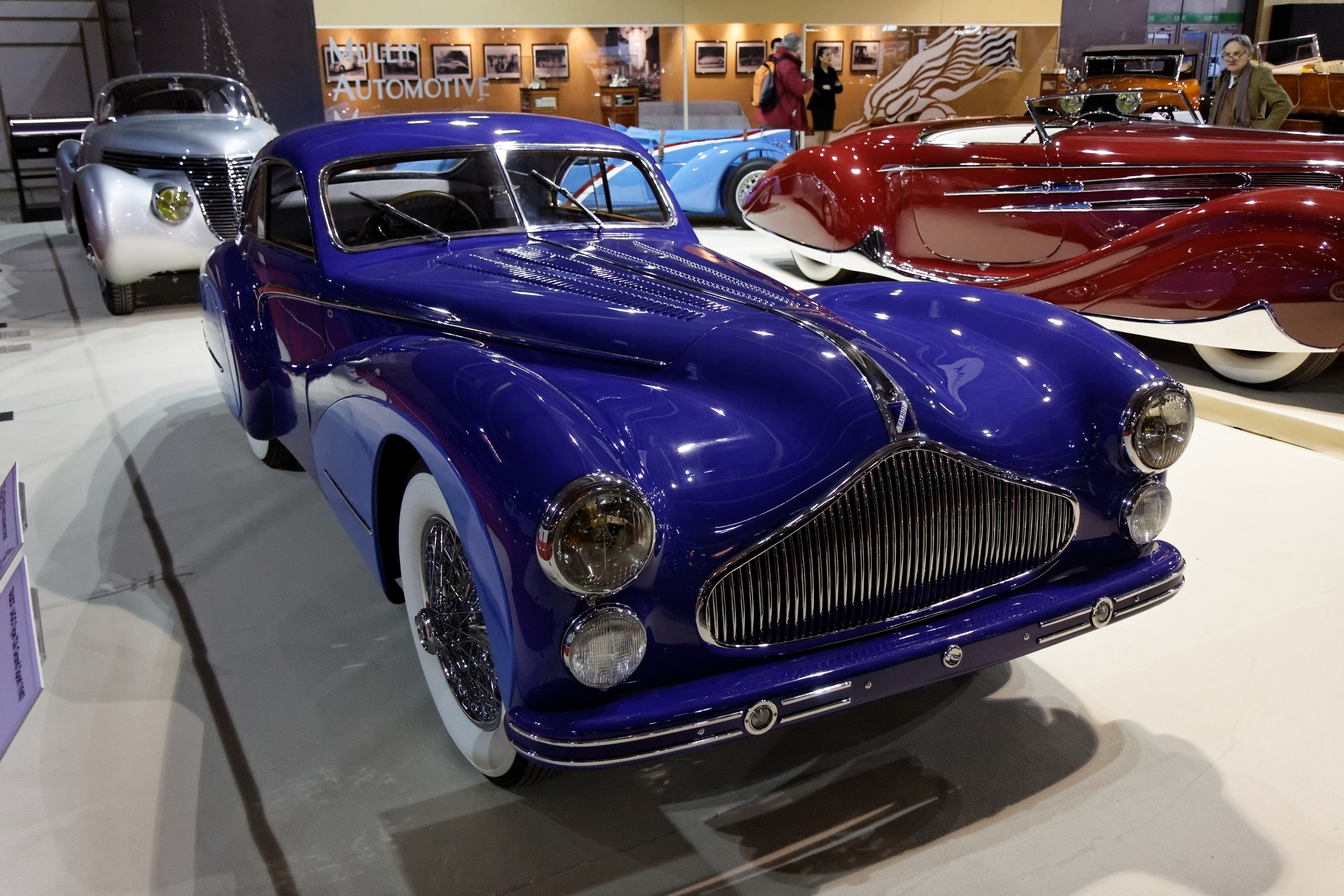 Talbot Lago type 26 grand sport